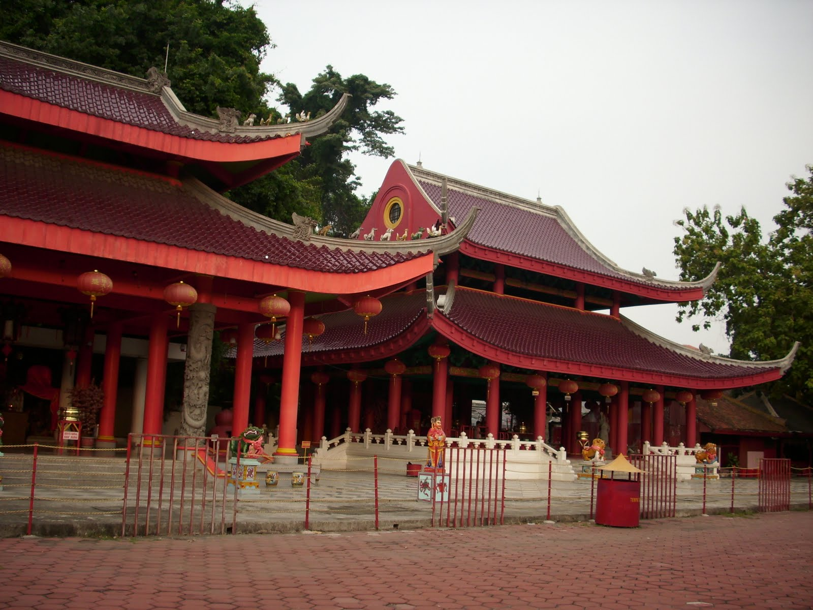 Sam Po Kong Temple (Gedung Batu), Semarang, Indonesia